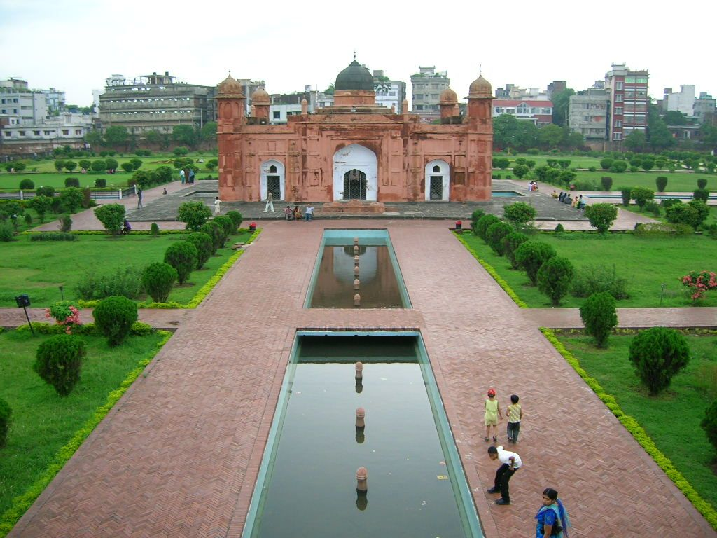 Picture of Lalbagh Fort